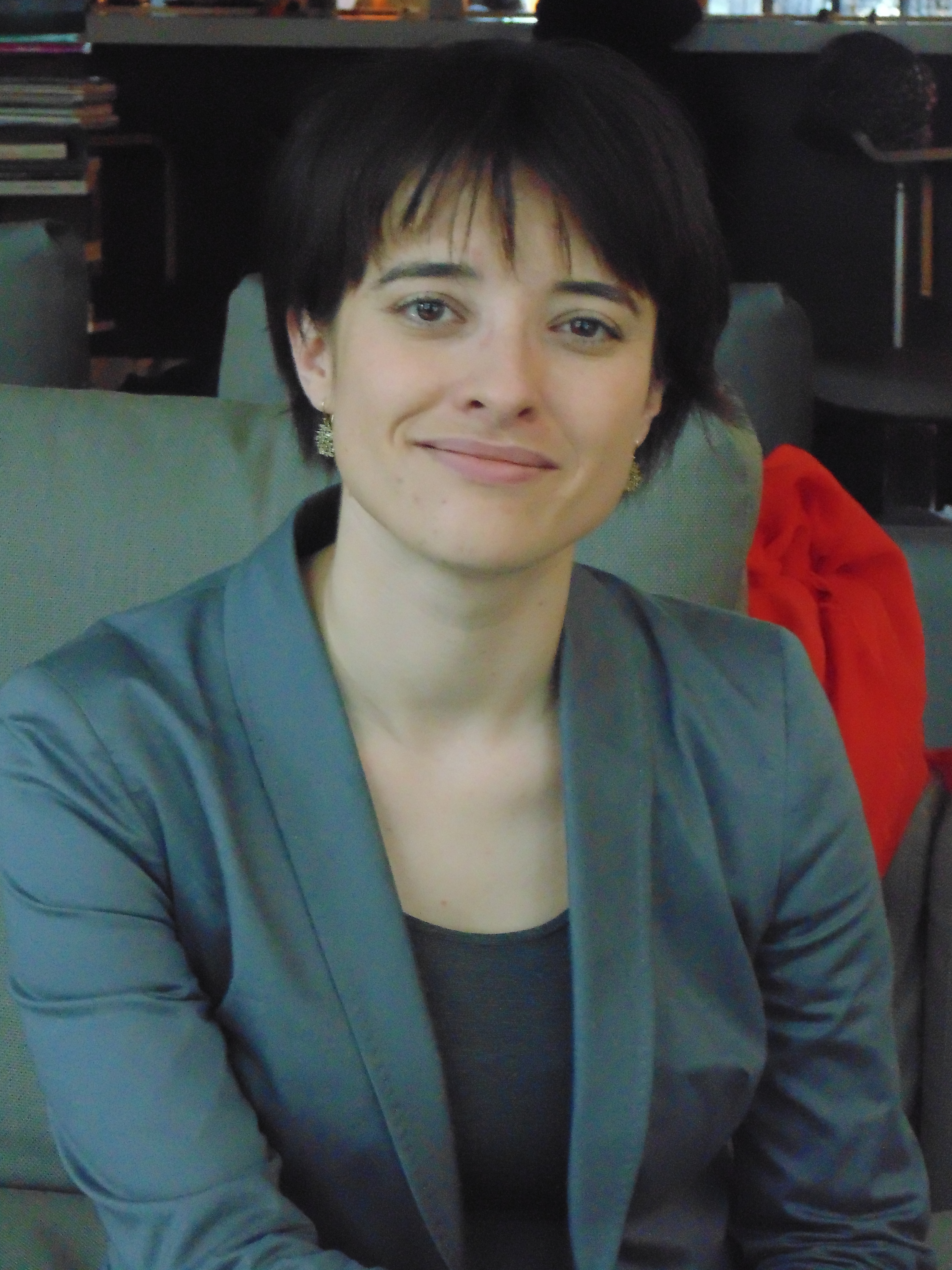 Danish politician and Radikale Venstre candidate for the 2014 European elections Karen Melchior.